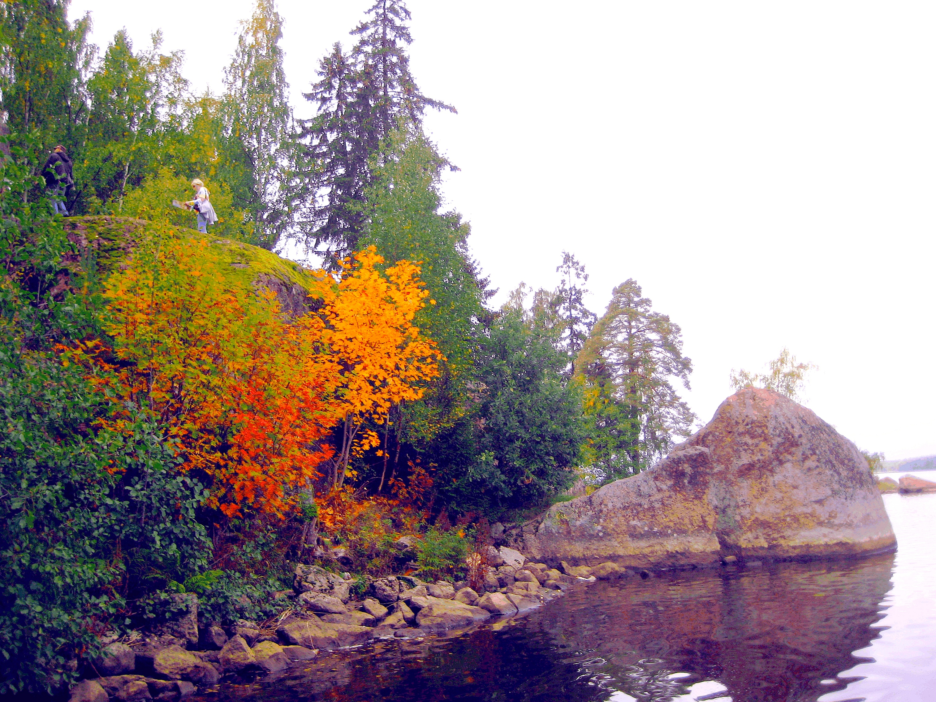 Gulf Coast: Monrepo Park, Vyborg, Vyborgsky District, Leningrad Region